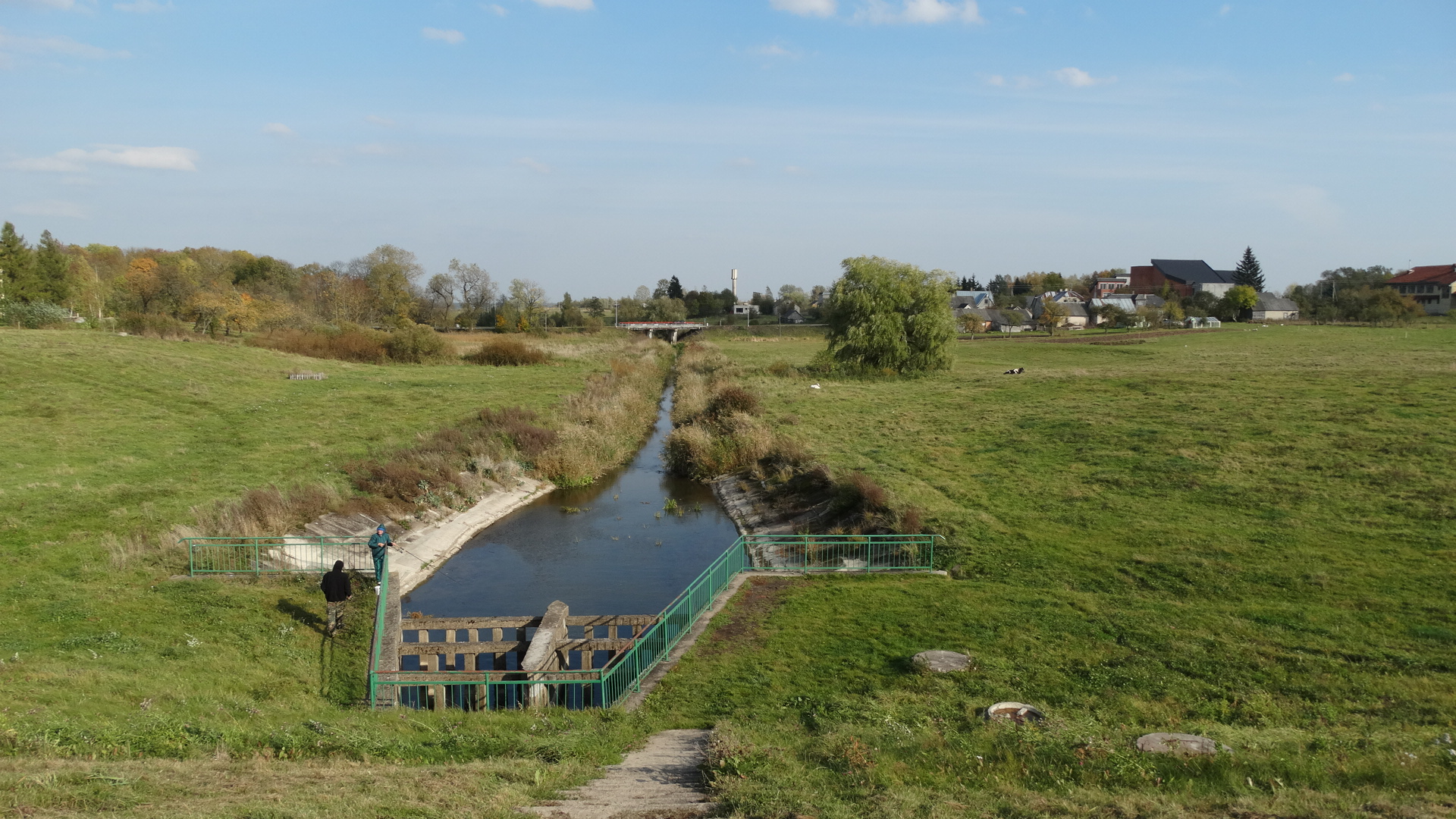 Peršėkė River, Krokialaukis, Alytus district, Lithuania